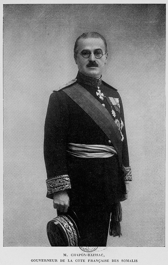 Official portrait of Pierre-Aimable Chapon-Baissac, governor of French Somaliland (1924-1934). Published in 1931